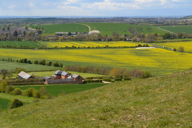 View above Cannings Cross Farm